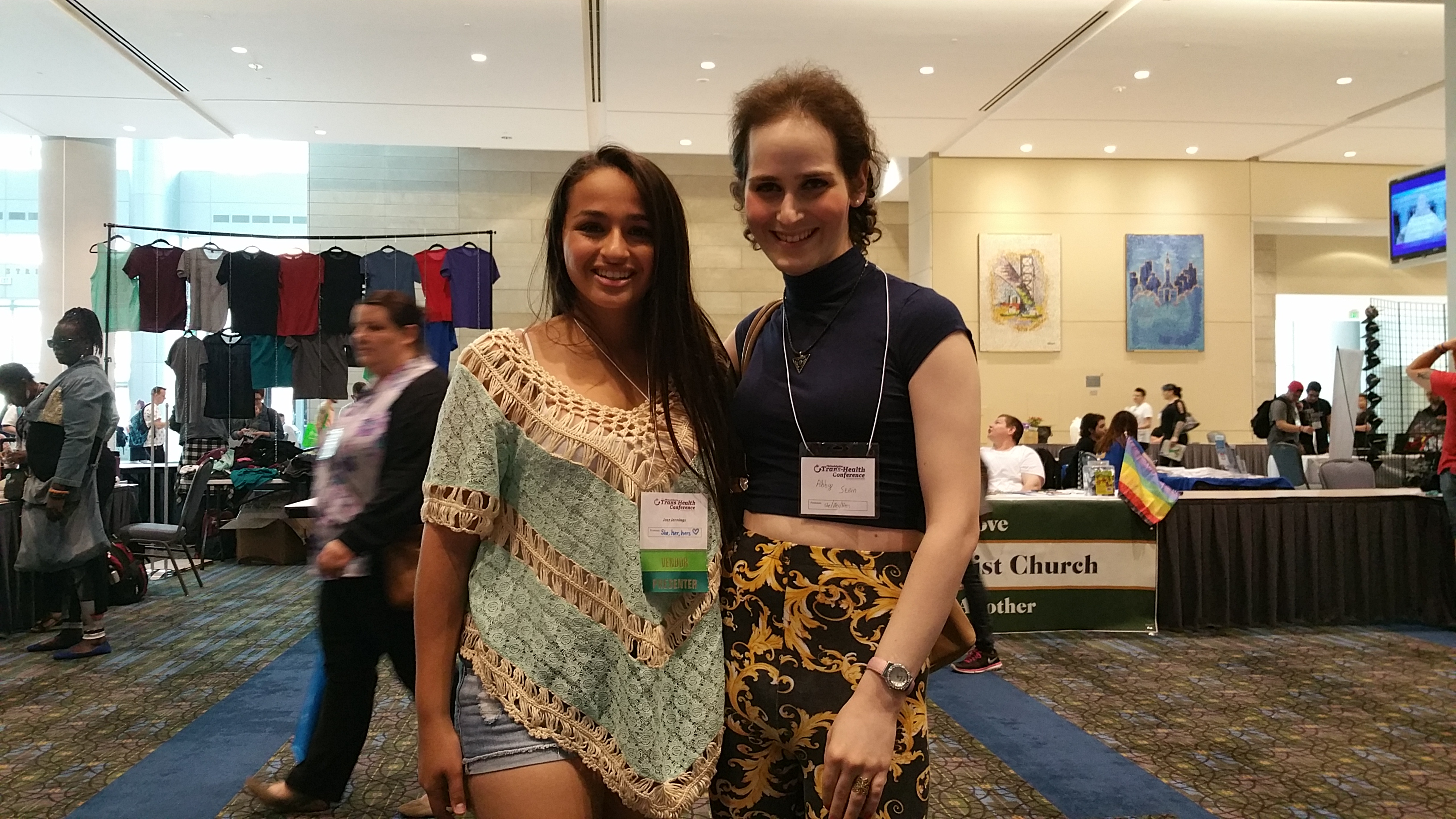 Abby Stein and Jazz Jennings at PTHC 2016